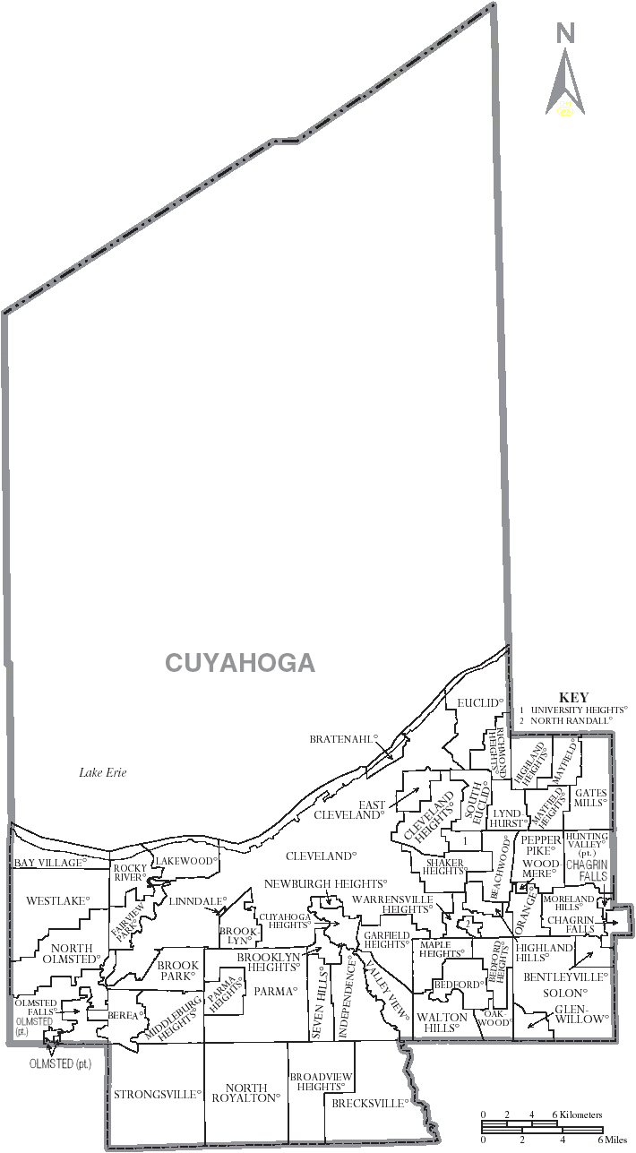 Map of Cuyahoga County, Ohio, United States with township and municipal boundaries